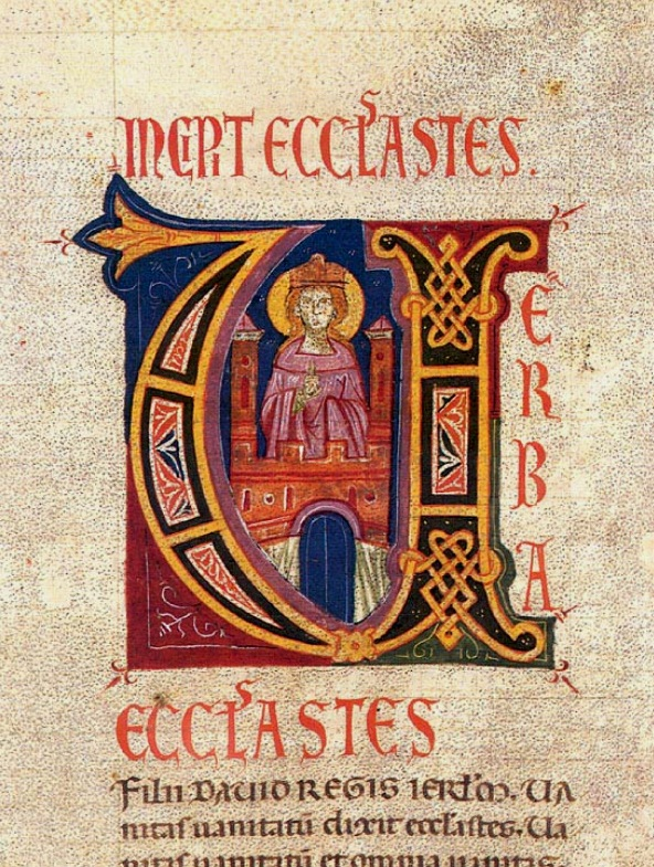 1 Marco Berlinghieri. A page from the Bible (Codex №1) 1248-1250 Palazzo della Curia Arcivescovile, Lucca